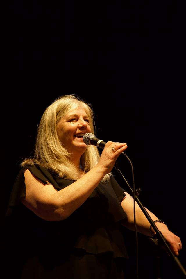 Music Network concert